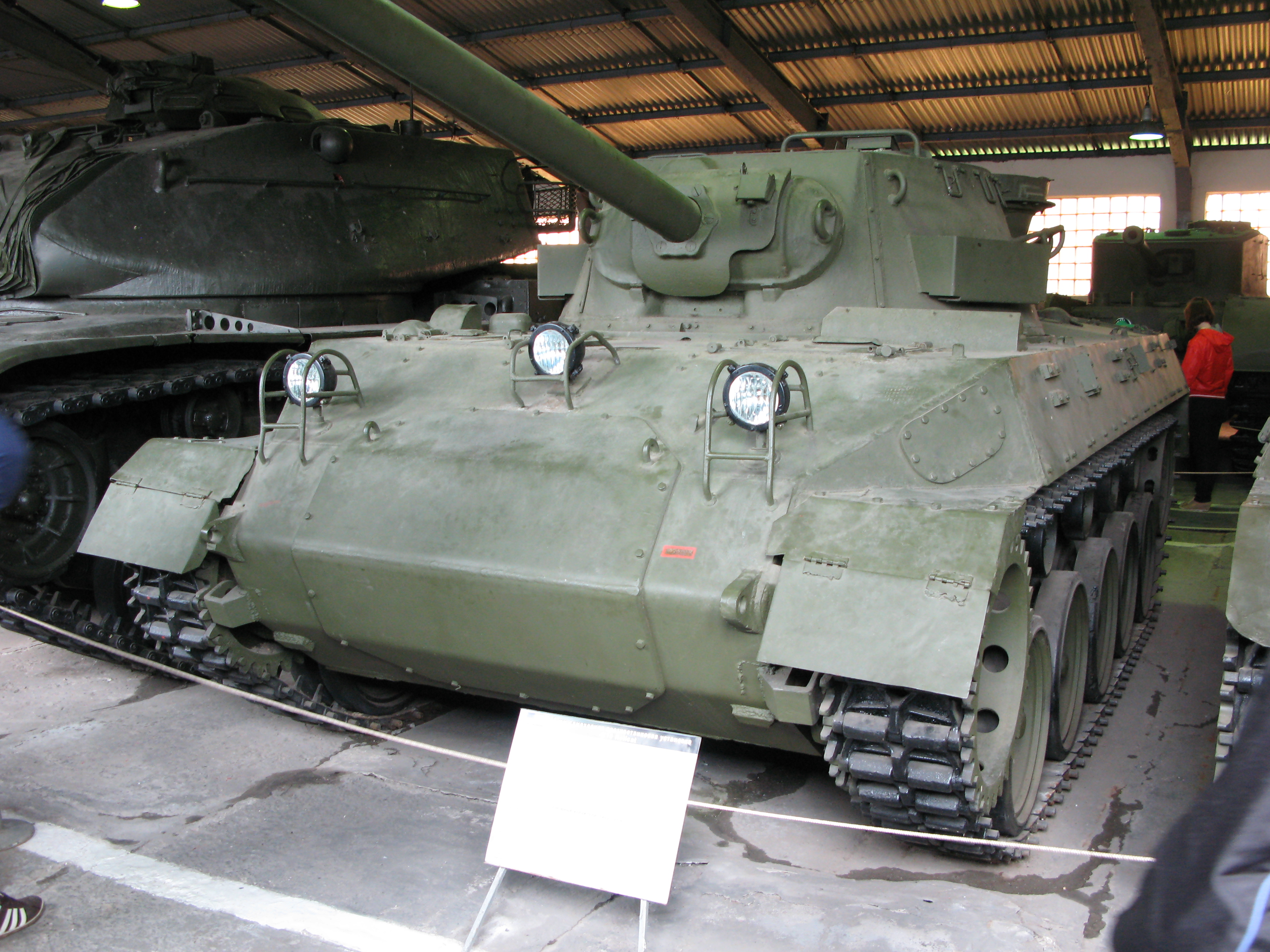 76 mm Gun Motor Carriage M18, Hellcat in Kubinka Tank Museum